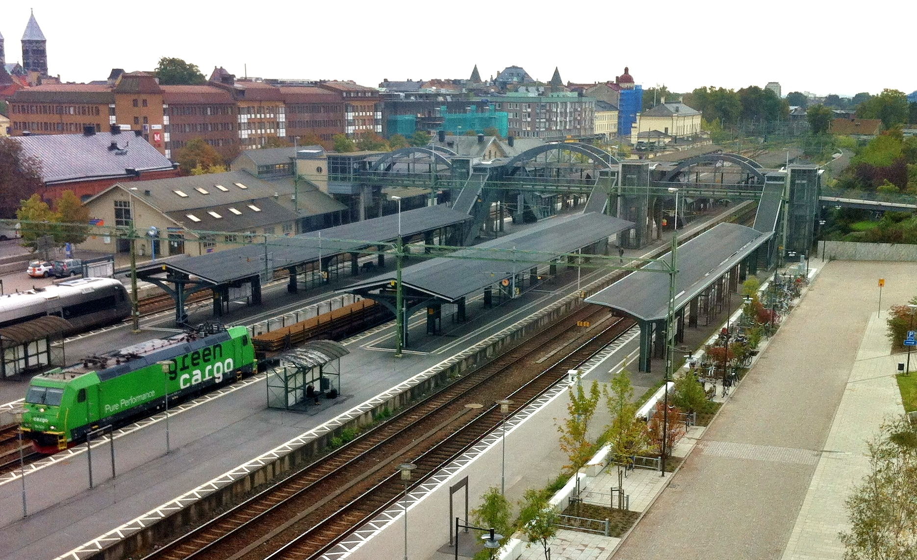 Lund C, the middle bridge over the tracks